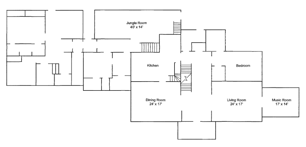 Floorplan of the 1st floor of the Gracland Mansion in Memphis, Tennessee. From the nomination of Graceland for a National Historic Landmark.